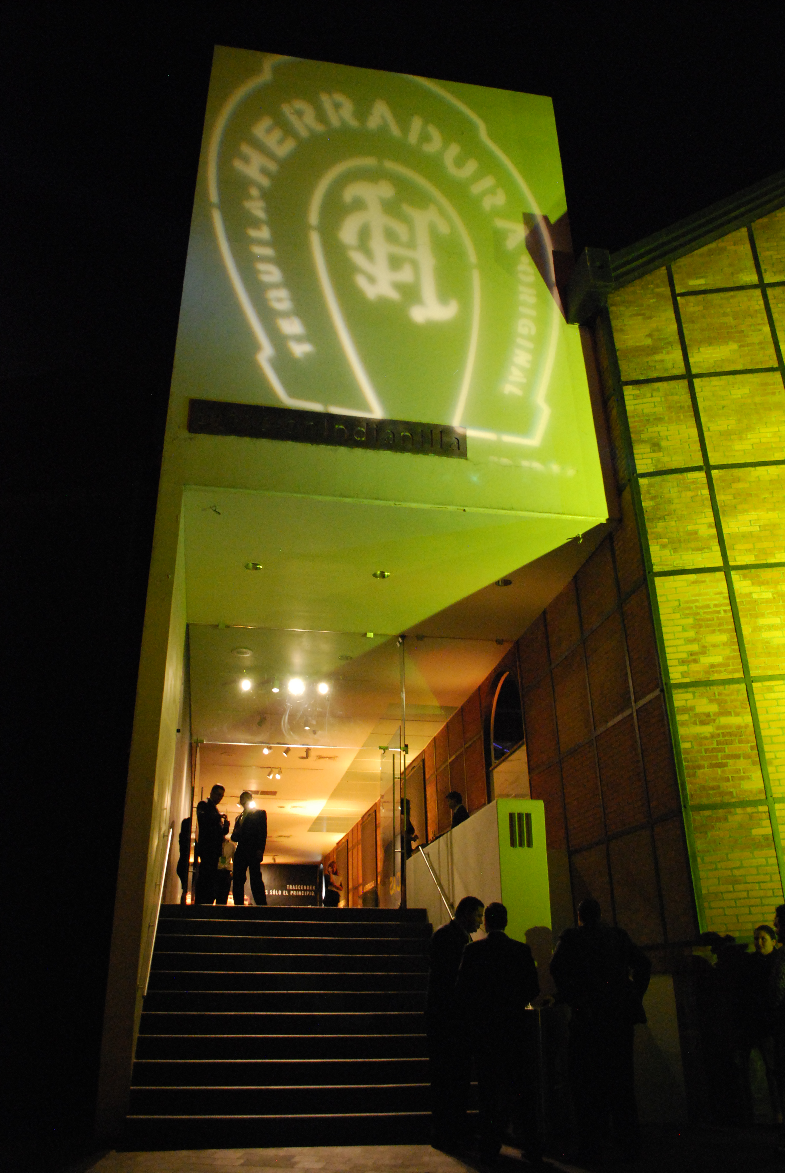 Facade of the Centro Cultural Indianilla lit for the Arte en Barricas 2012 event of Herradura Tequila at the Centro Cultural Indianilla in Mexico City